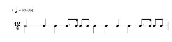 Sheet music of Joongmorie Jangdan